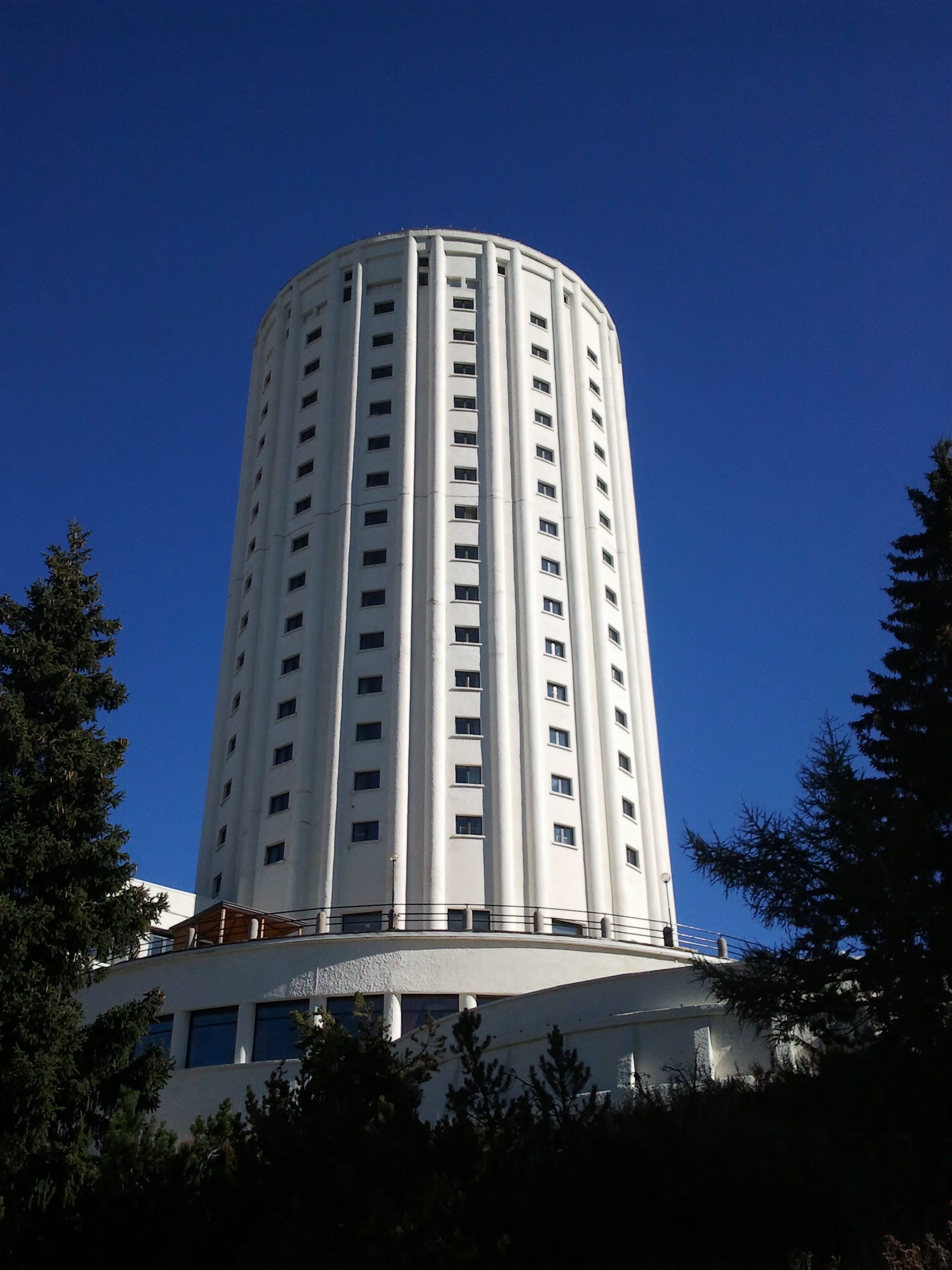 Colonia Fiat Sestriere